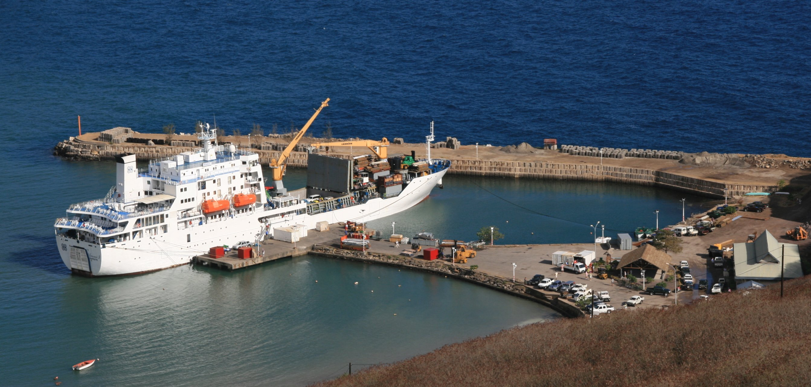 The mixed passenger/cargo ship Aranui 3, in harbour of Haka Hau, island of Ua Pu. It operates between Tahiti and Marquesas Islands.